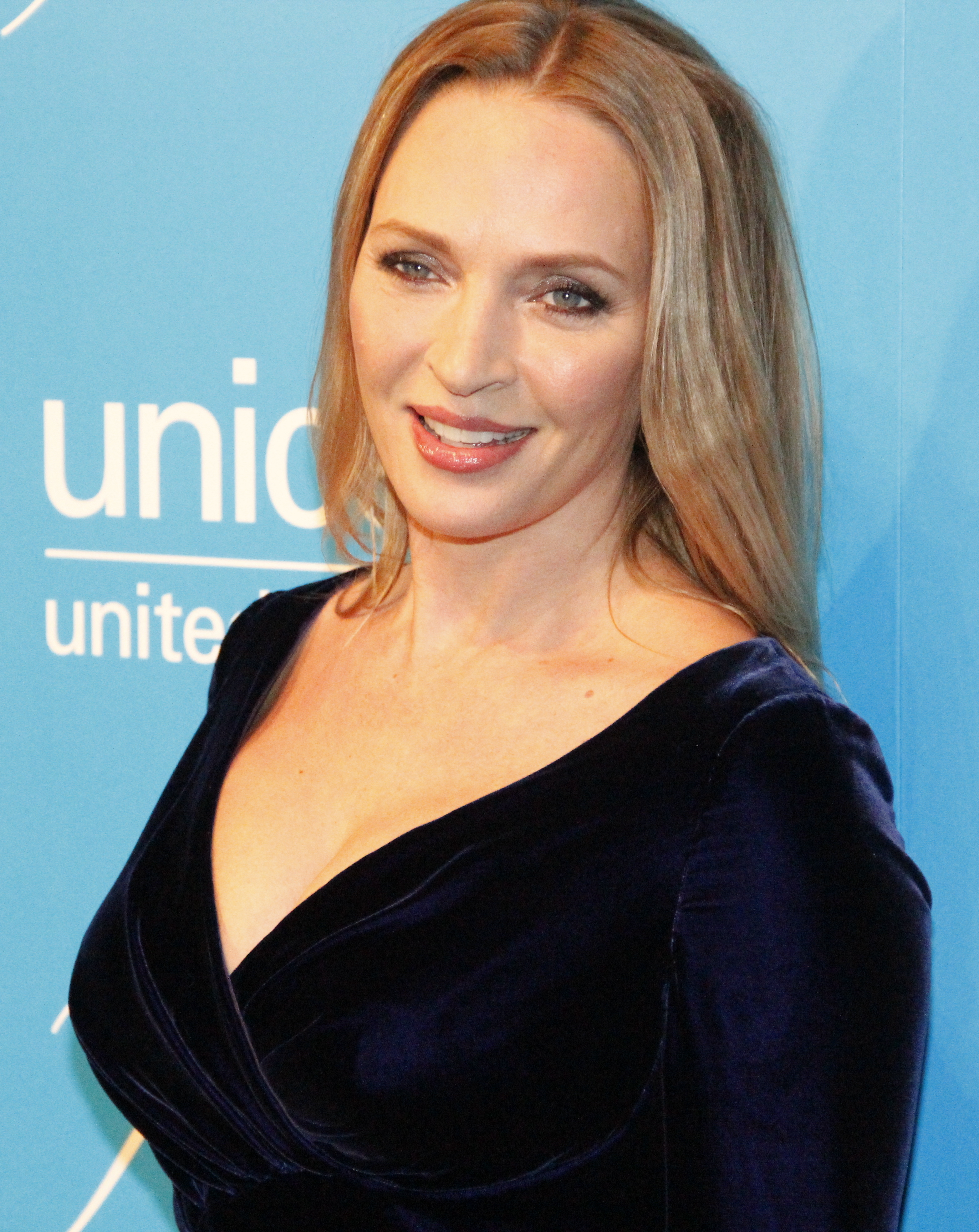 Uma Thurman at the UNICEF Snowflake Ball 2012 in New York City.